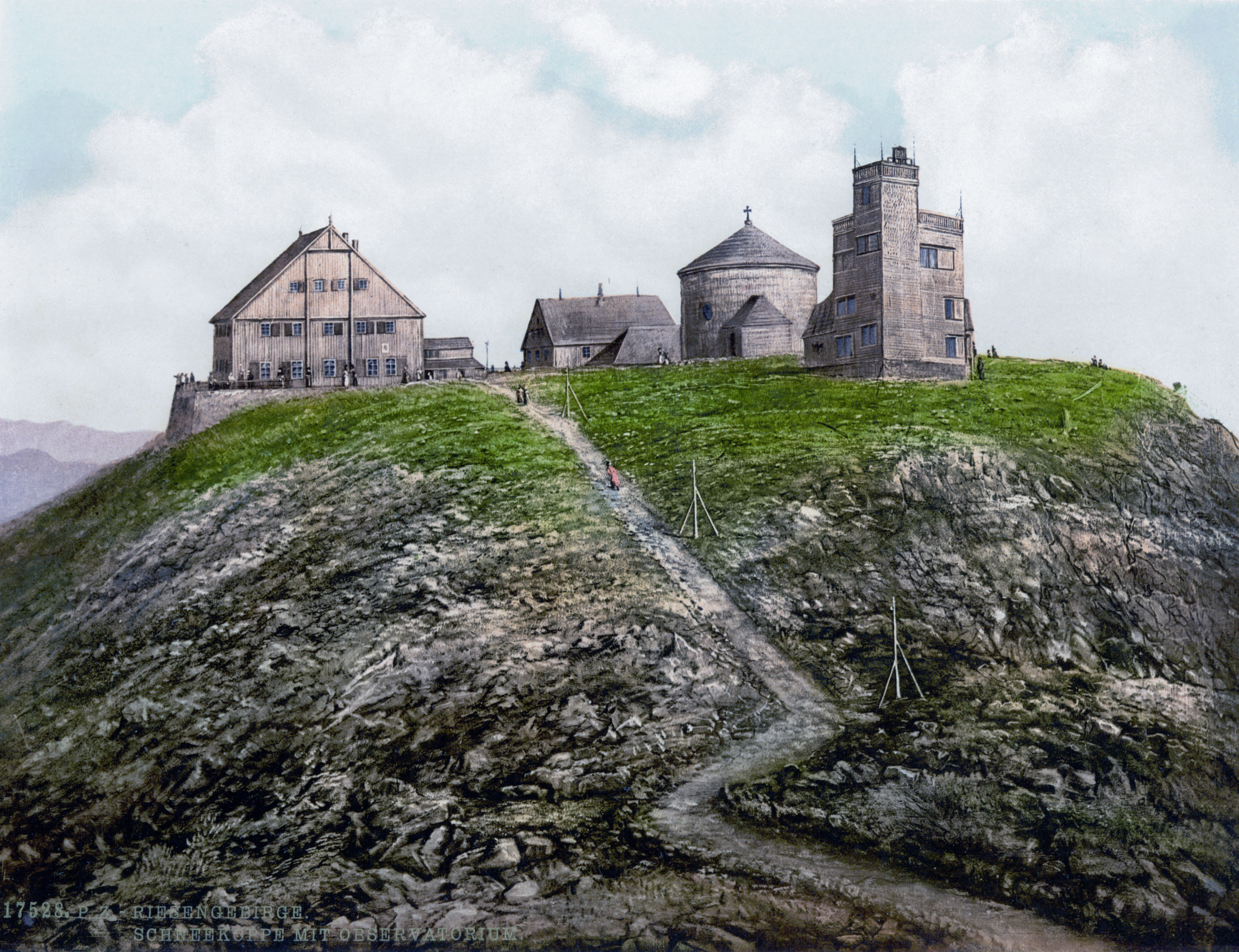 Sněžka and weather station